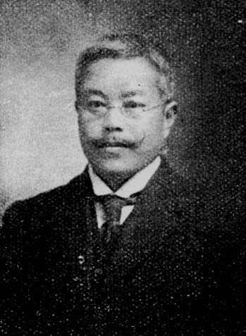 Mr. Iwazō Ototake, professor of the Tokyo Higher Normal School.